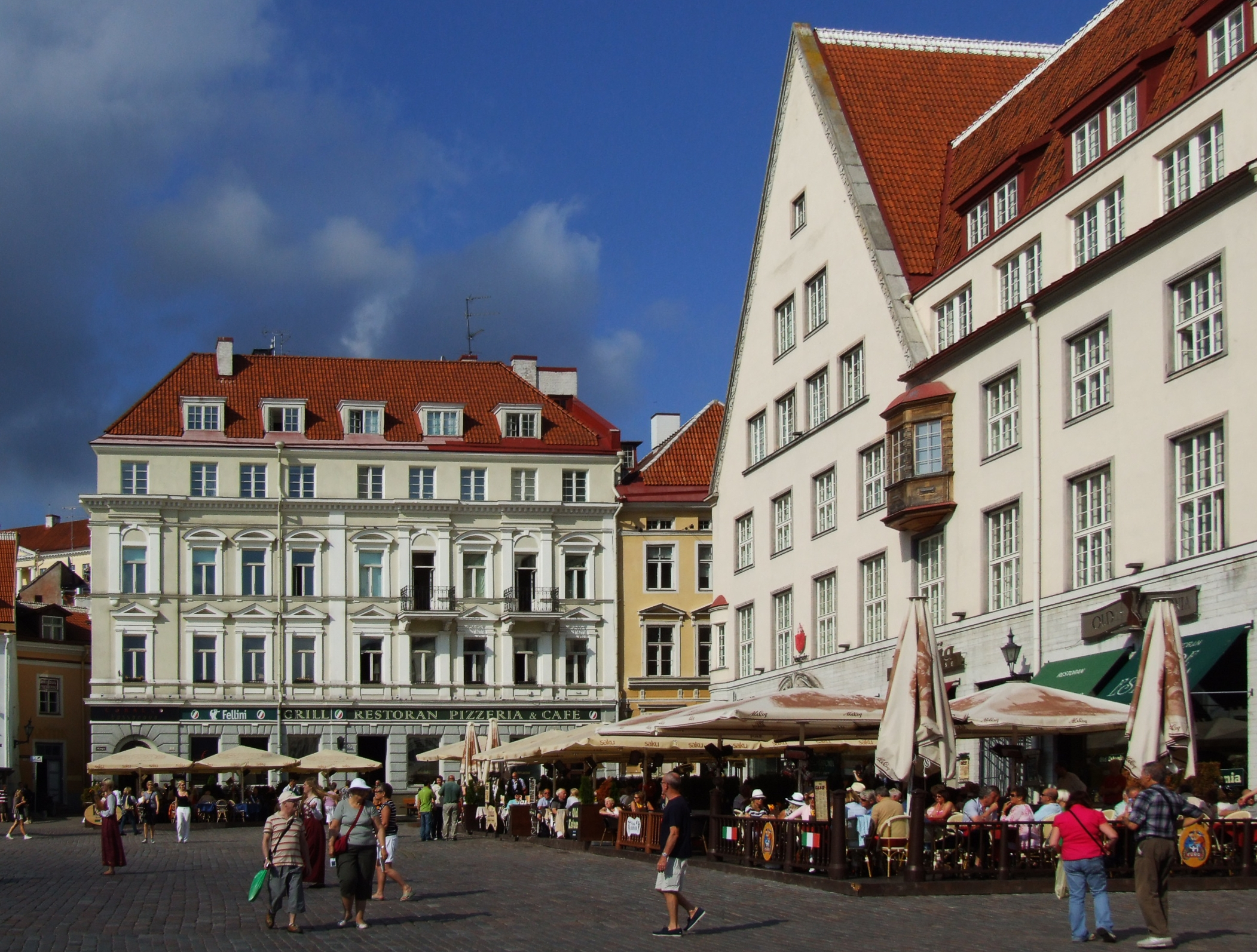 Raekoja plats (Town hall square), Tallinn